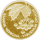 Coin of Ukraine Kalina R